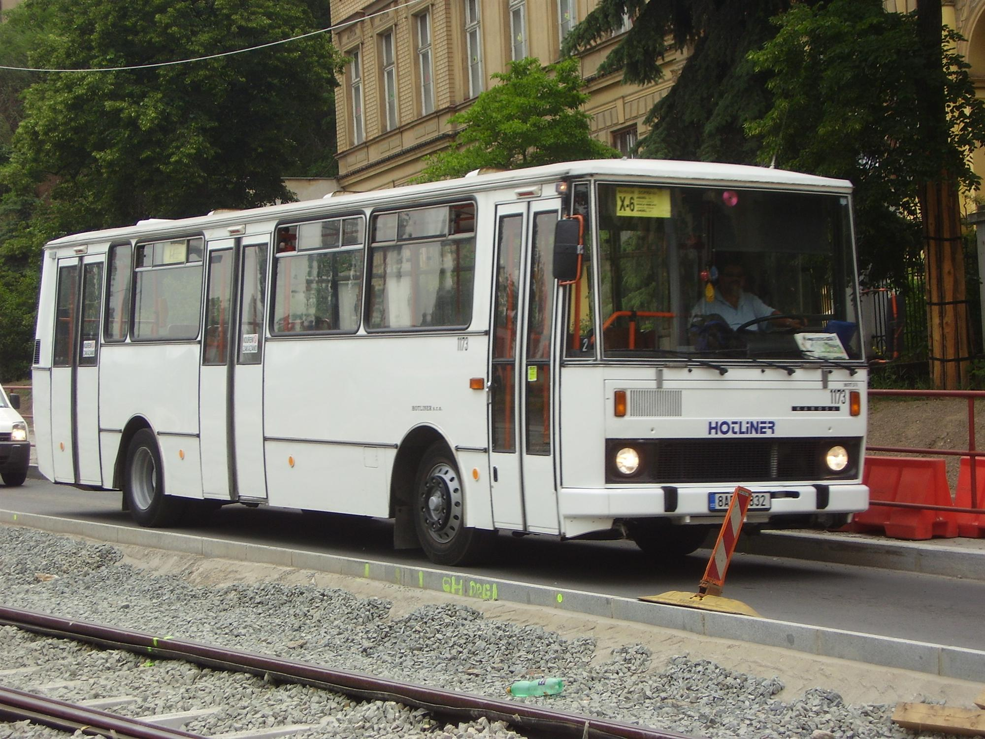 Alternative bus line X-6 in Radlická street, Prague